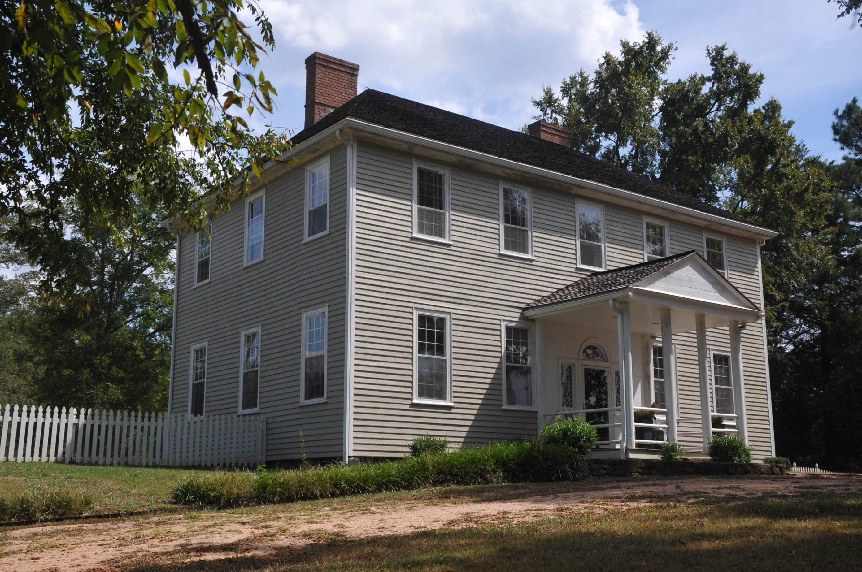 1842 FEDERAL MID 19TH CENTURY REVIVAL